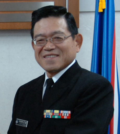 Vice Adm. Yosinori Kawano, commander of the Maritime Materiel Command, Japan Maritime Self Defense Force (JMSDF).